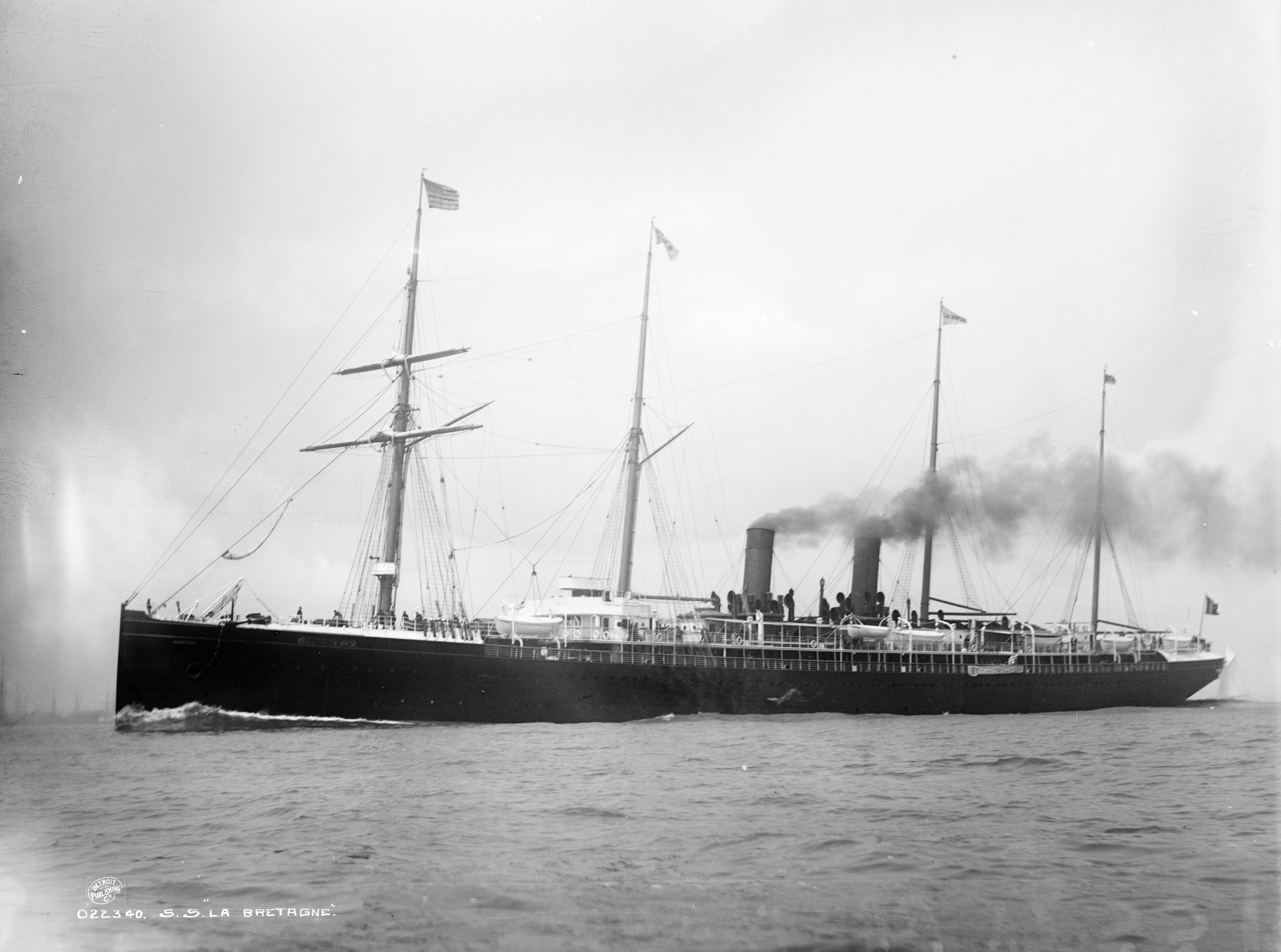 SS La Bretagne seen before her 1895 refit Description from Library of Congress website: TITLE: S.S. La Bretagne CALL NUMBER: LC-D4-22340 [P&P] REPRODUCTION NUMBER: LC-D4-22340 (b&w glass neg.) MEDIUM: 1 negative : glass ; 8 x 10 in. CREATED/PUBLISHED: [between 1890 and 1895] CREATOR: Johnston, John S., photographer. RELATED NAMES: Detroit Publishing Co., publisher. NOTES: Attribution based on style of title and numbering. Detroit Publishing Co. no. 022340. Gift; State Historical Society of Colorado; 1949. SUBJECTS: La Bretagne (Ocean liner), Ocean liners. FORMAT: Dry plate negatives. PART OF: Detroit Publishing Company Photograph Collection REPOSITORY: Library of Congress Prints and Photographs Division Washington, D.C. 20540 USA DIGITAL ID: (digital file from intermediary roll film) det 4a15883 CONTROL #: det1994011718/PP